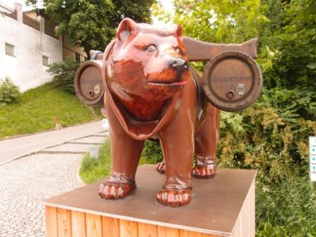 Bear sculpture with beer kegs at the Weihenstephan brewery in Bavaria.